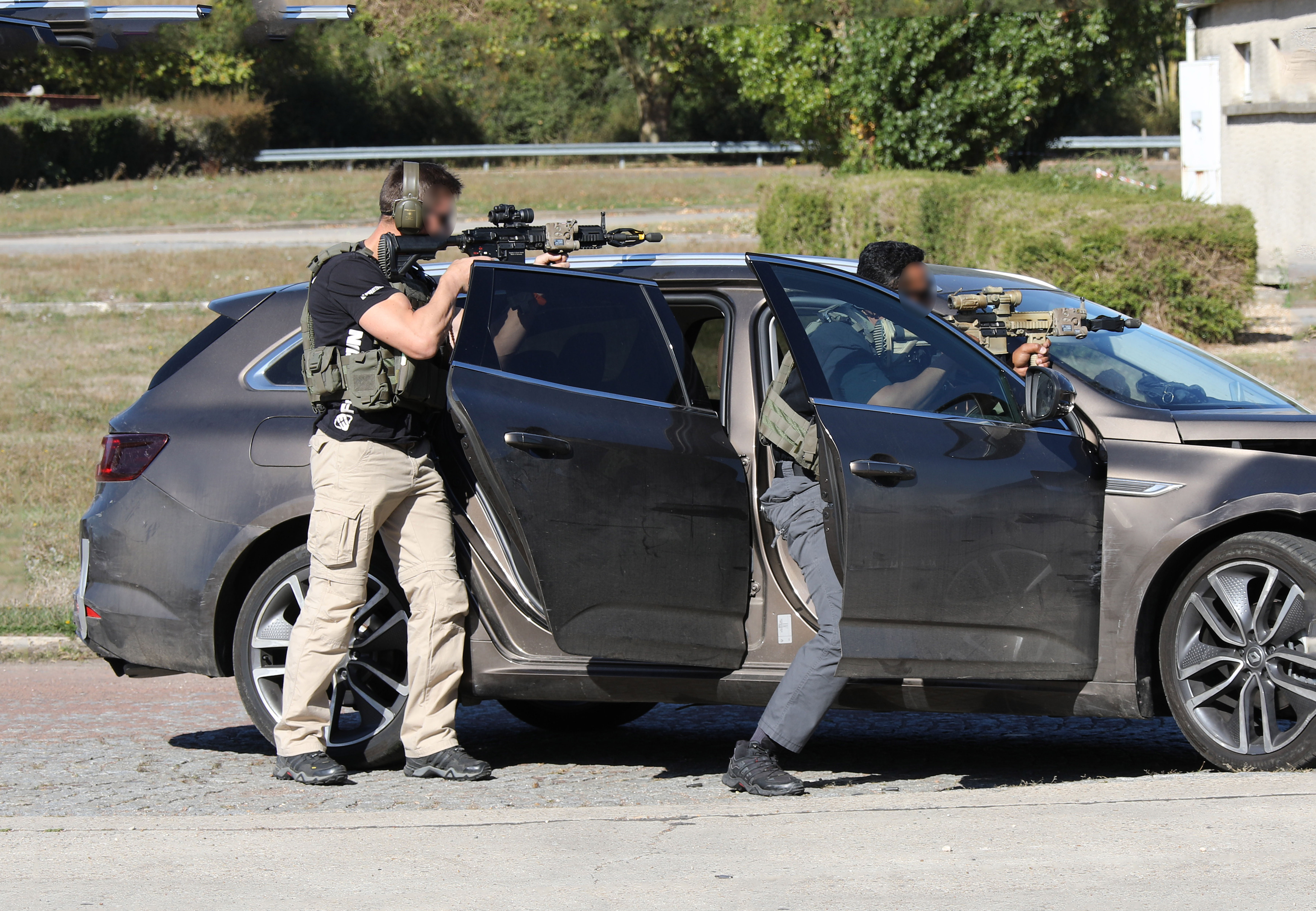 French Gendarmerie GIGN Force Sécurité Protection (FSP) demo-4. Another group of FSP gendarmes provides covering fire.